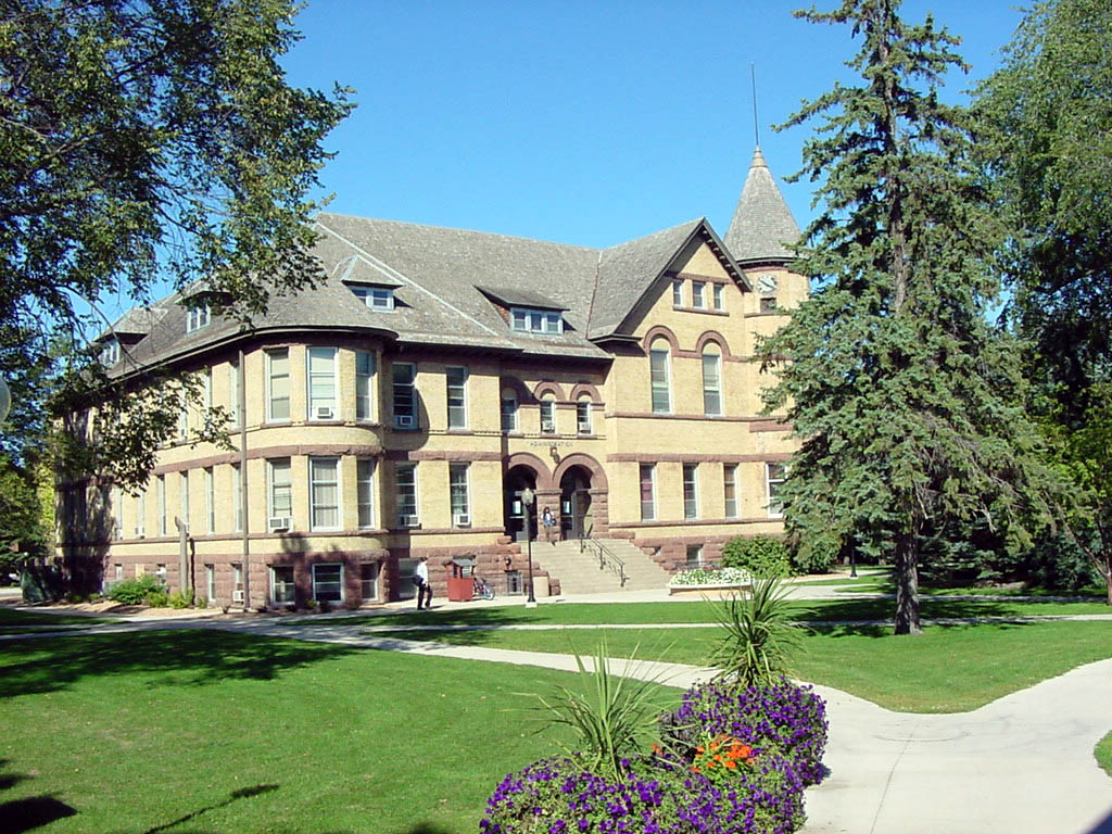 Building on the campus of NDSU in Fargo, North Dakota